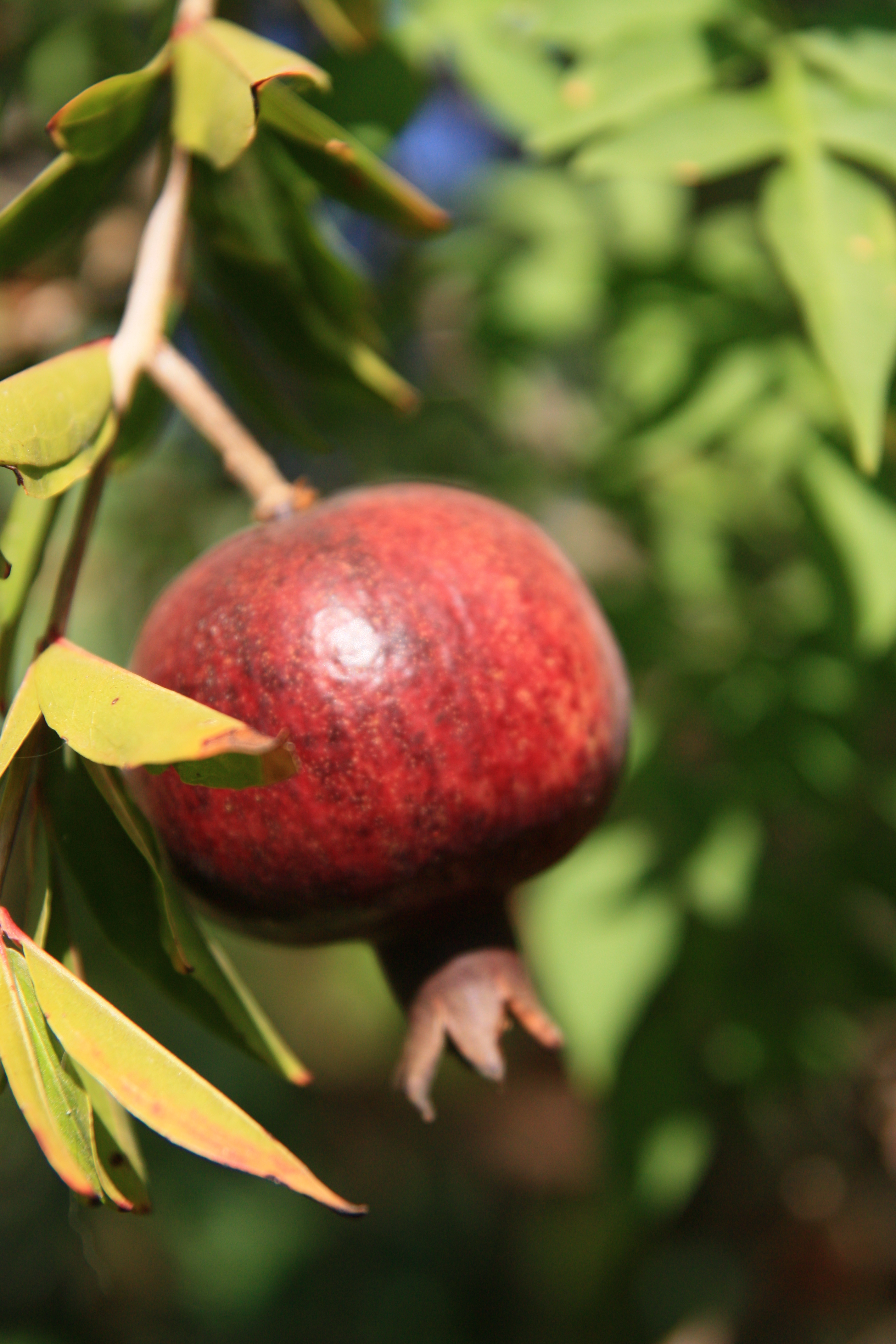 fruit trees